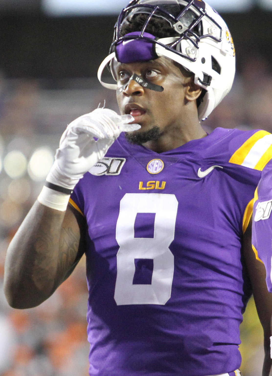 LSU Tigers vs Northwestern LA Demons, September 14, 2019, Tiger Stadium, Baton Rouge, Louisiana, Tammy Anthony Baker, Photographer @tabinla @tmabaker